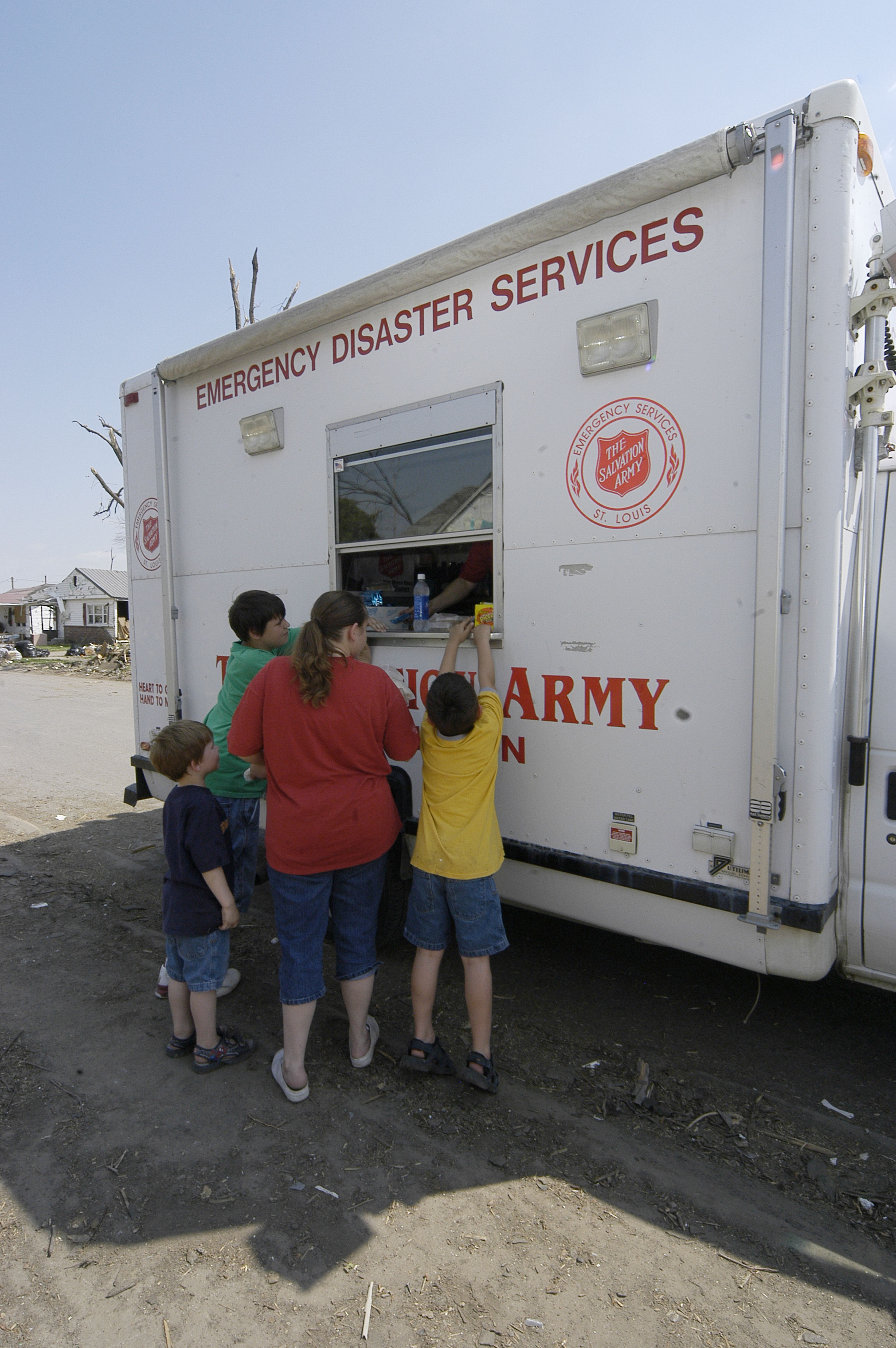 Caruthersville, MO, 4-15-06 -- Residents of Caruthersville accept food and supplies from a Salvation Army disaster relief truck. Photo by Patsy Lynch/FEMA